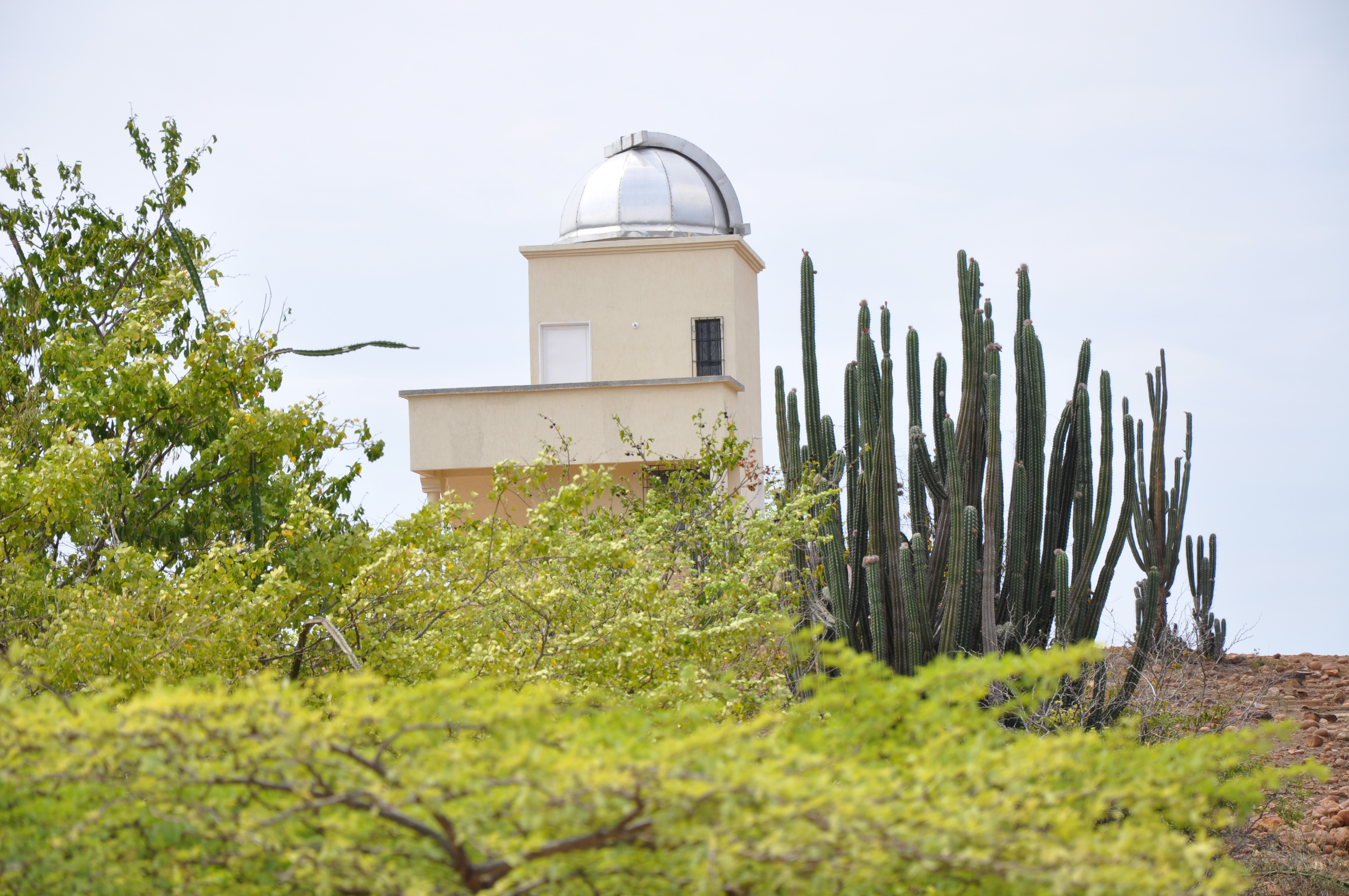 Tatacoa´s Astronomical observatory - The Tatacoa Desert